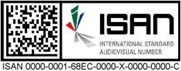 ISAN 2d bar code example